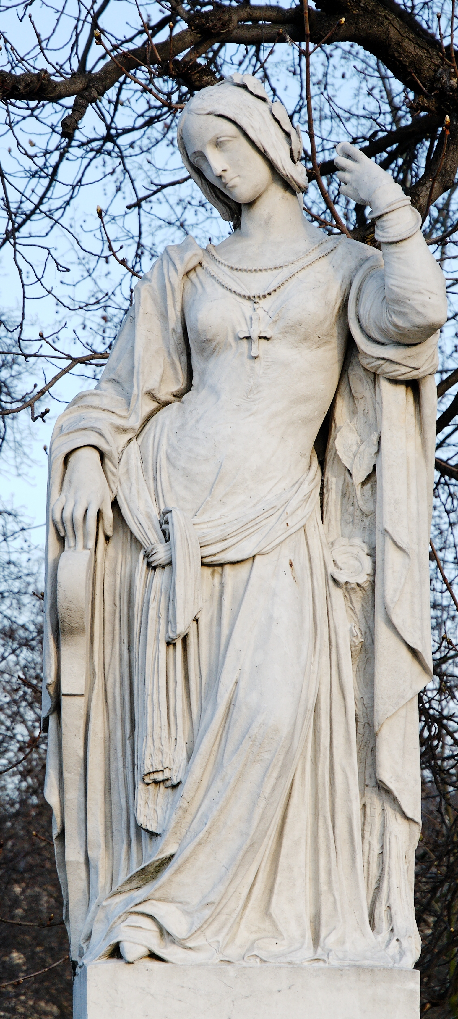 Clémence Isaure by Antoine-Augustin Préault. Luxembourg Garden, Paris.